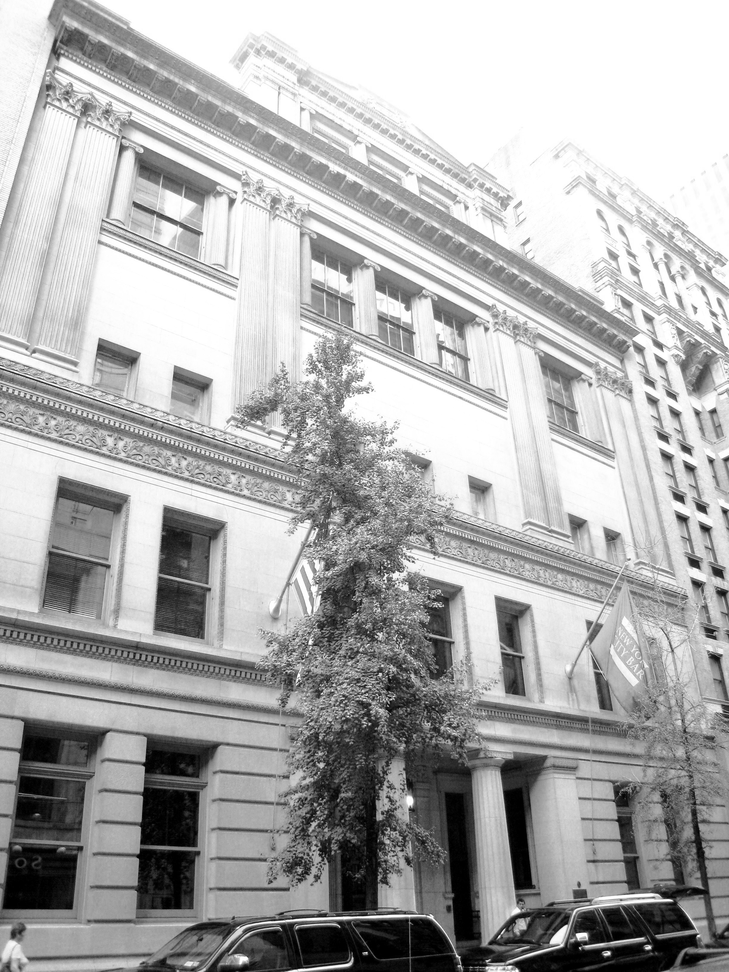 New York City Bar Association Building, 2010.